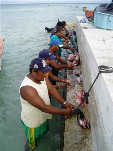 Fishermen cleaning fish in in village of Garumaoa, Raroia atoll, Tuamotu, French Polynesia